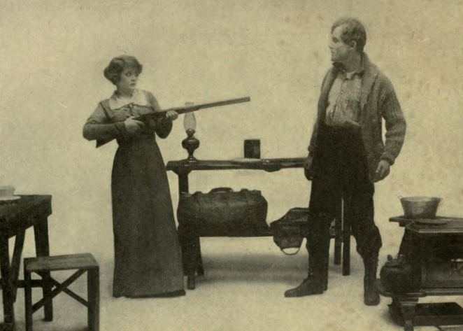 Still from the 1913 Broadway production of The Land of Promise with Billie Burke and Shelley Hull, facing page 220 of the 1914 novelization of the play. Caption: I'll shoot you, I'll shoot you!